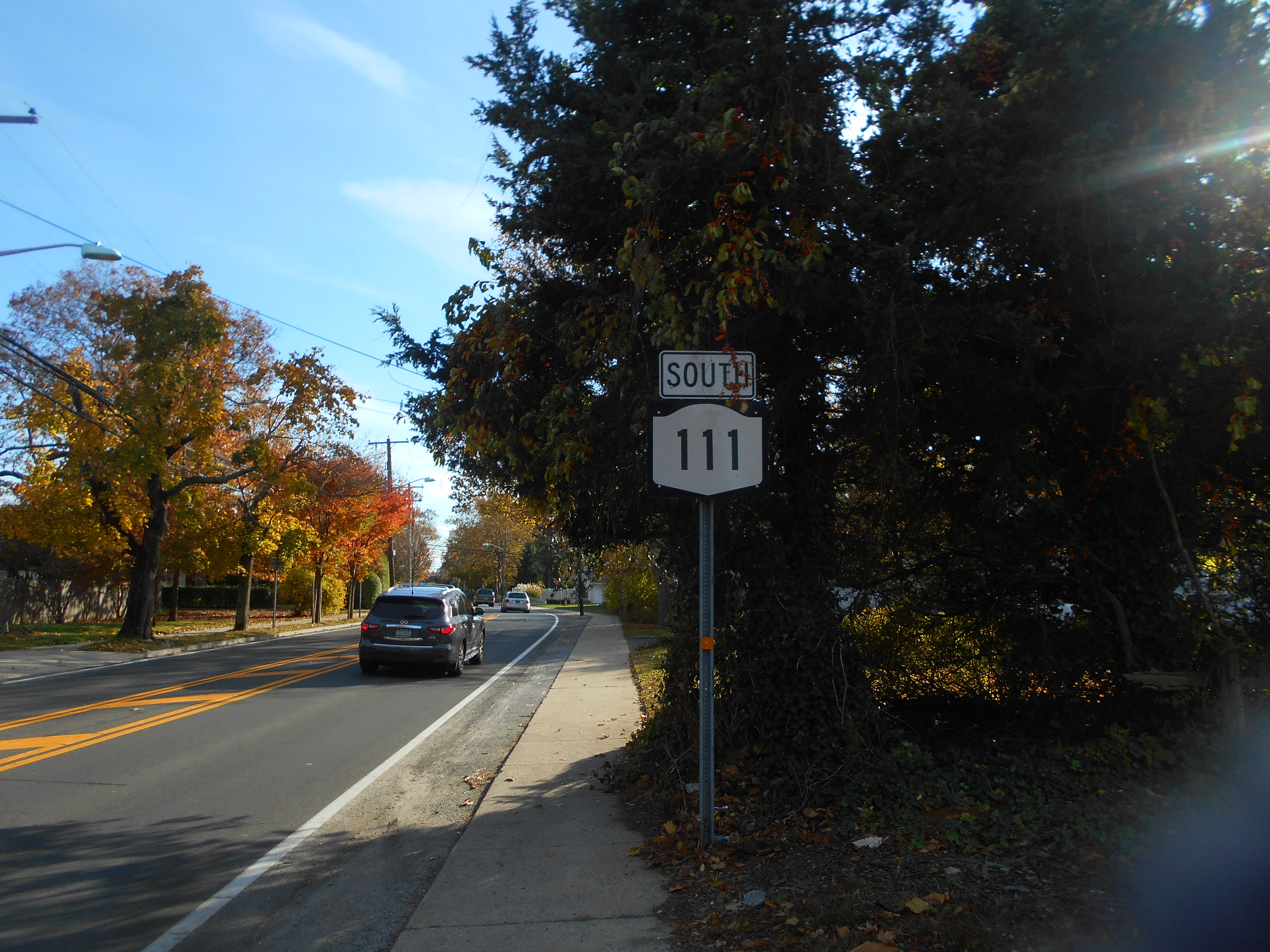 New York State Route 111 southbound in Islip, New York, a half-mile from New York State Route 27A .